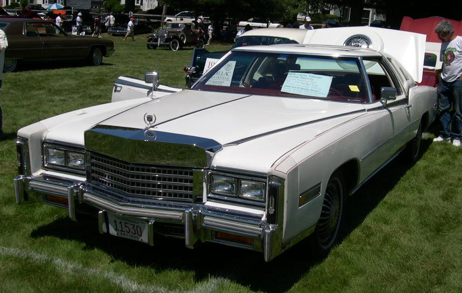 1976 Cadillac Eldorado Biarritz Source: Photographed at the Bay State Antique Automobile Club's July 10, 2005 show at the Endicott Estate in Dedham, MA by User:Sfoskett